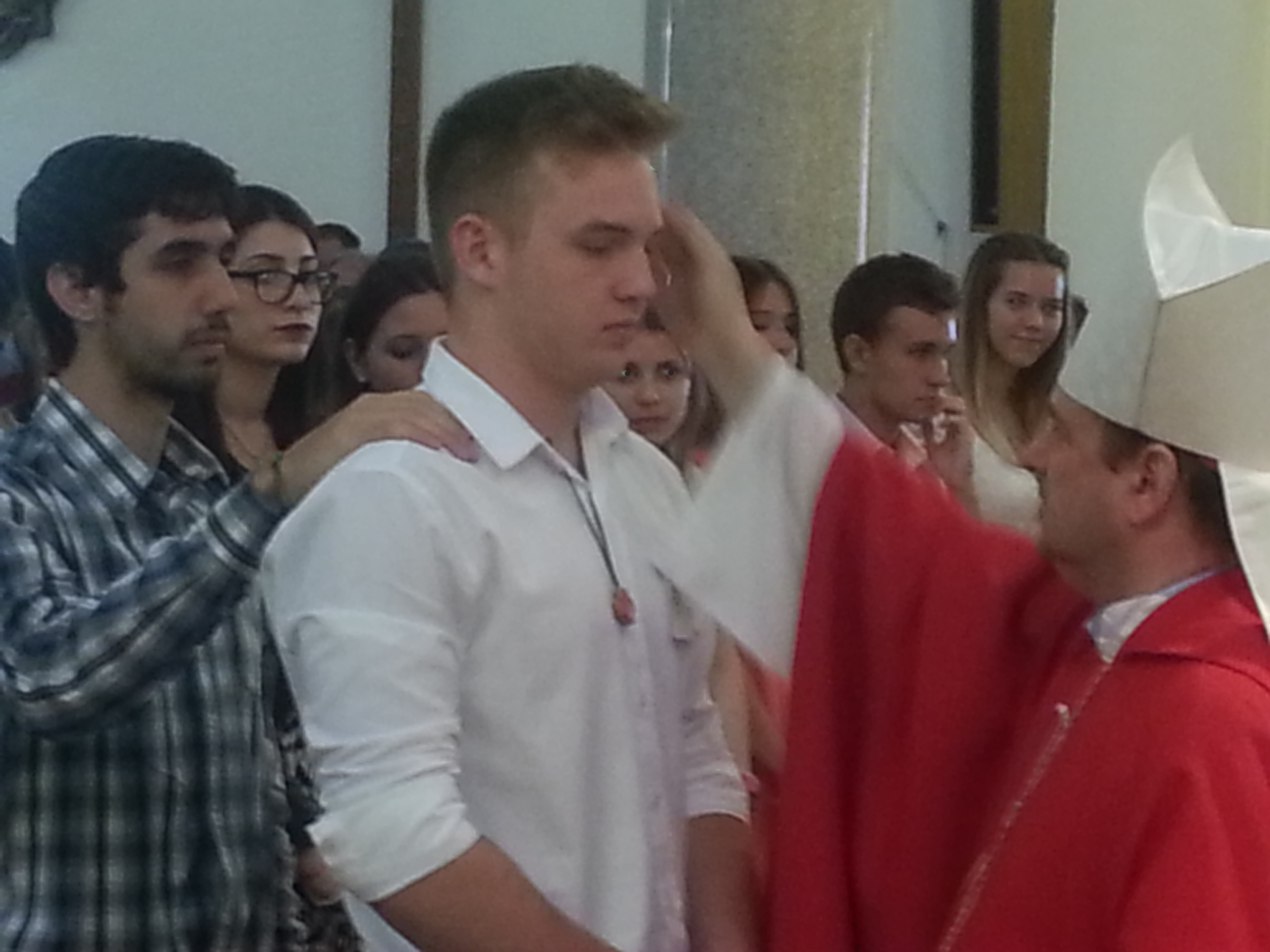 Enrique Eguía Seguí, auxiliary bishop of Buenos Aires, administering a Catholic confirmation.